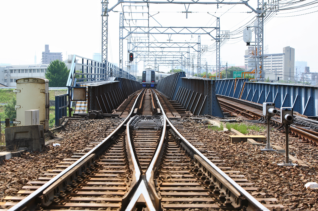 Meitetsu Biwajima Junction.